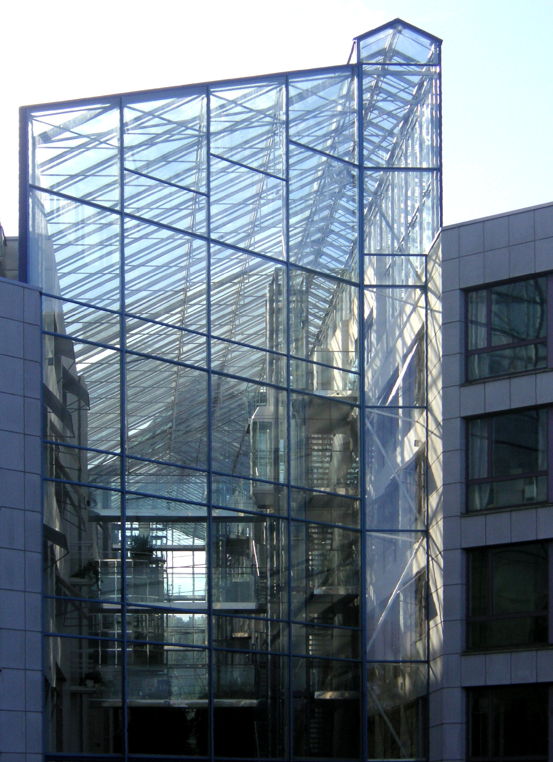 Scandinavian Airlines head office in Frösundavik, Solna